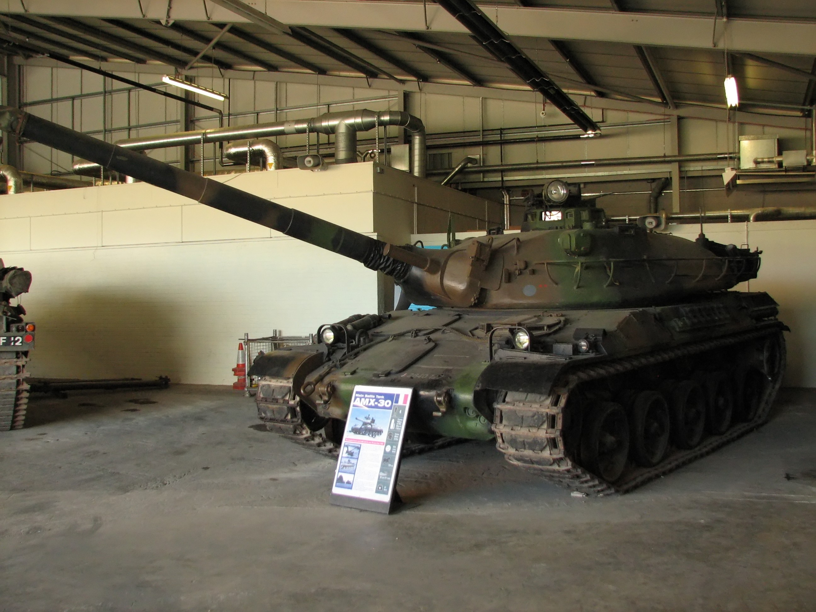 French AMX-30 B2 Main Battle Tank at Bovington Tank Museum